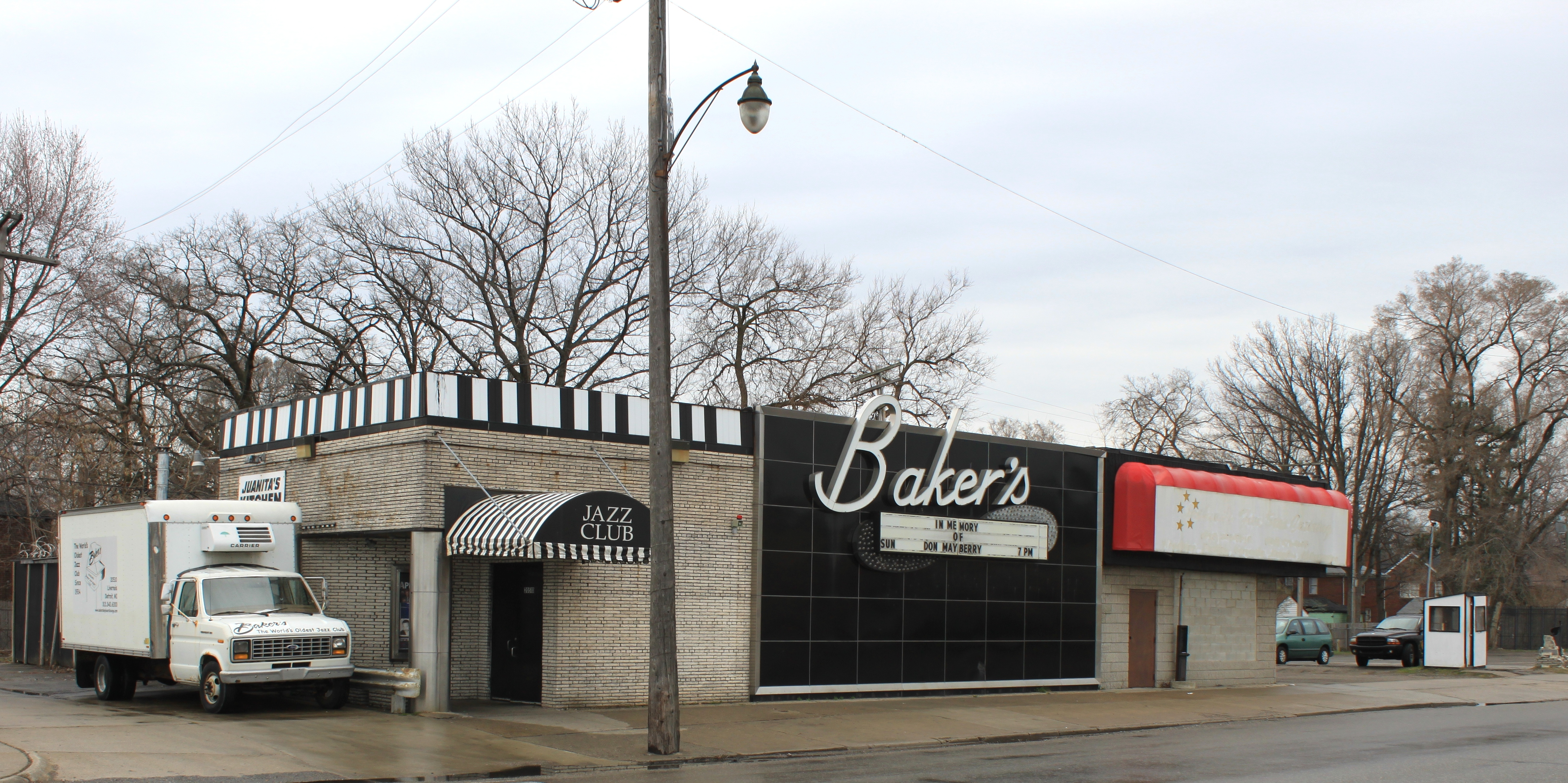 Baker's Keyboard Lounge jazz club, 20510 Livernois Street, Detroit, Michigan